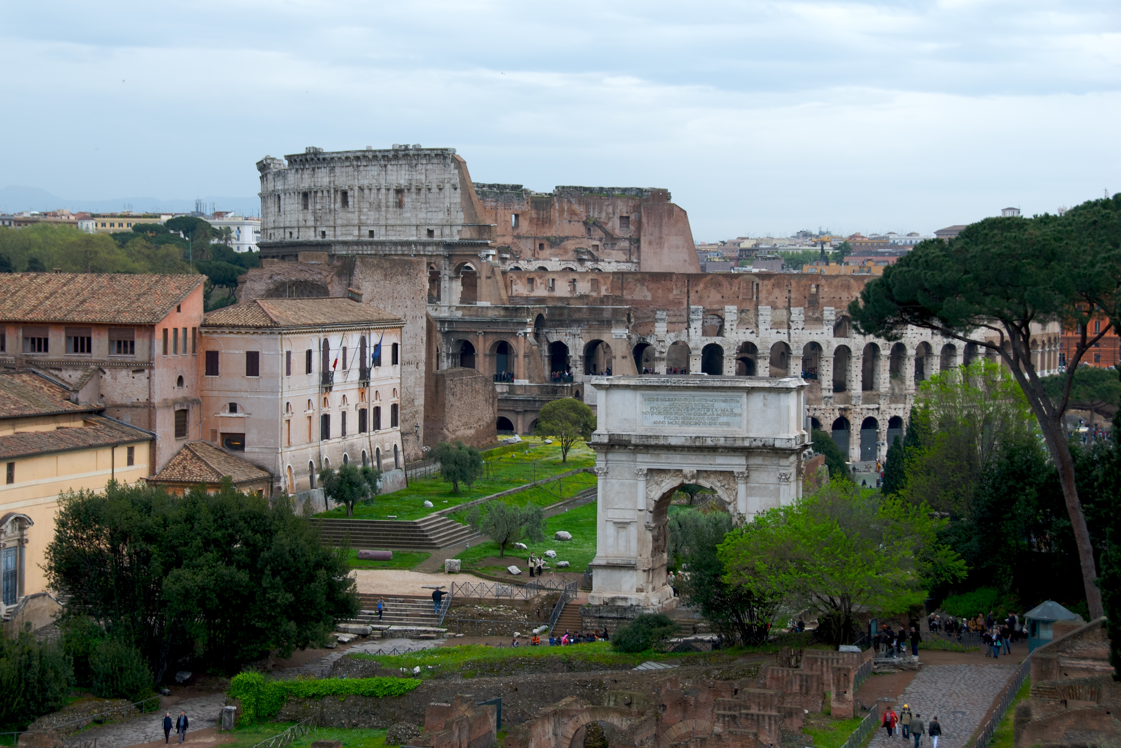 View On Black